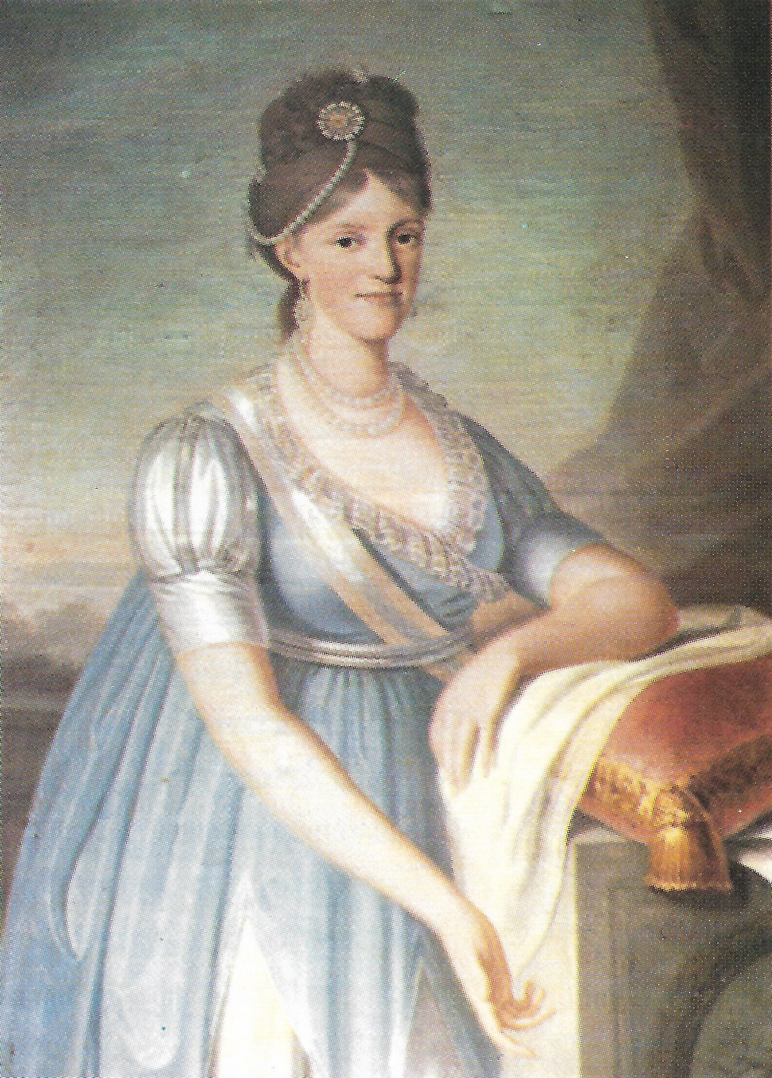 Carlota Joaquina of Spain (1775-1830) while Princess of Brazil